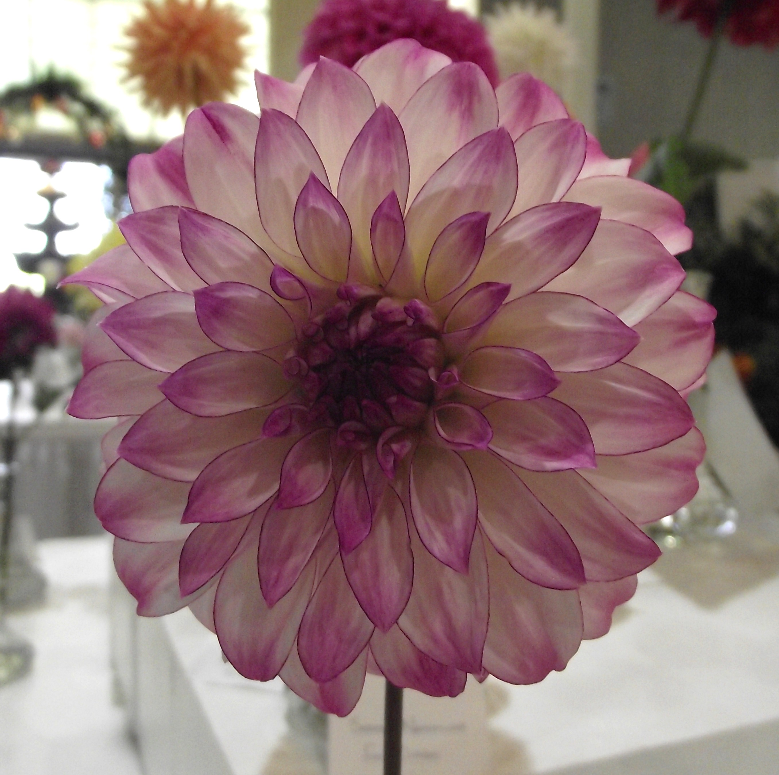 Dahlia 'High Plains Majesty' at the San Diego County Fair, California, USA. Identified by exhibitor's sign.